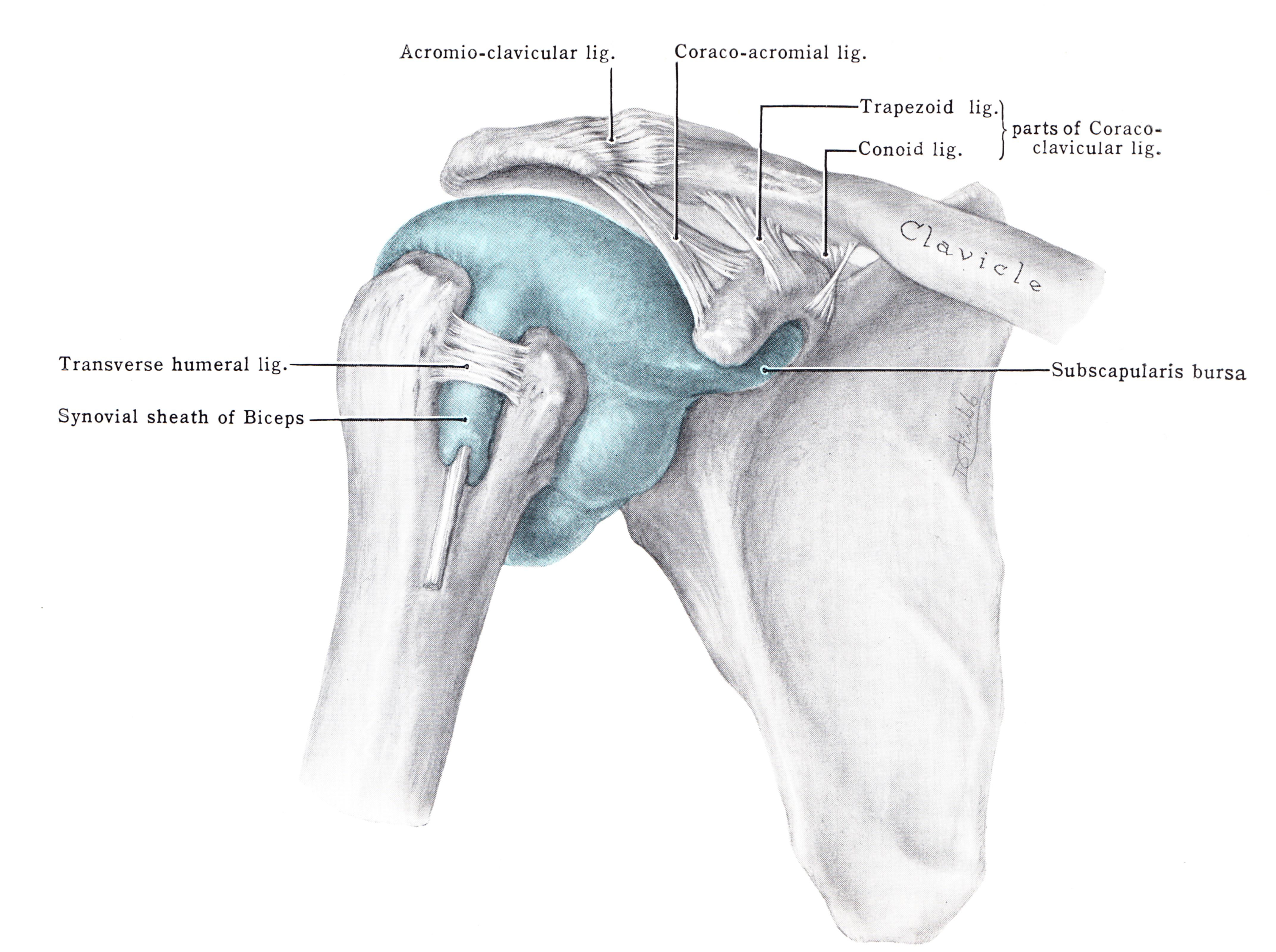 An anatomical illustration from An atlas of anatomy/by regions 1962